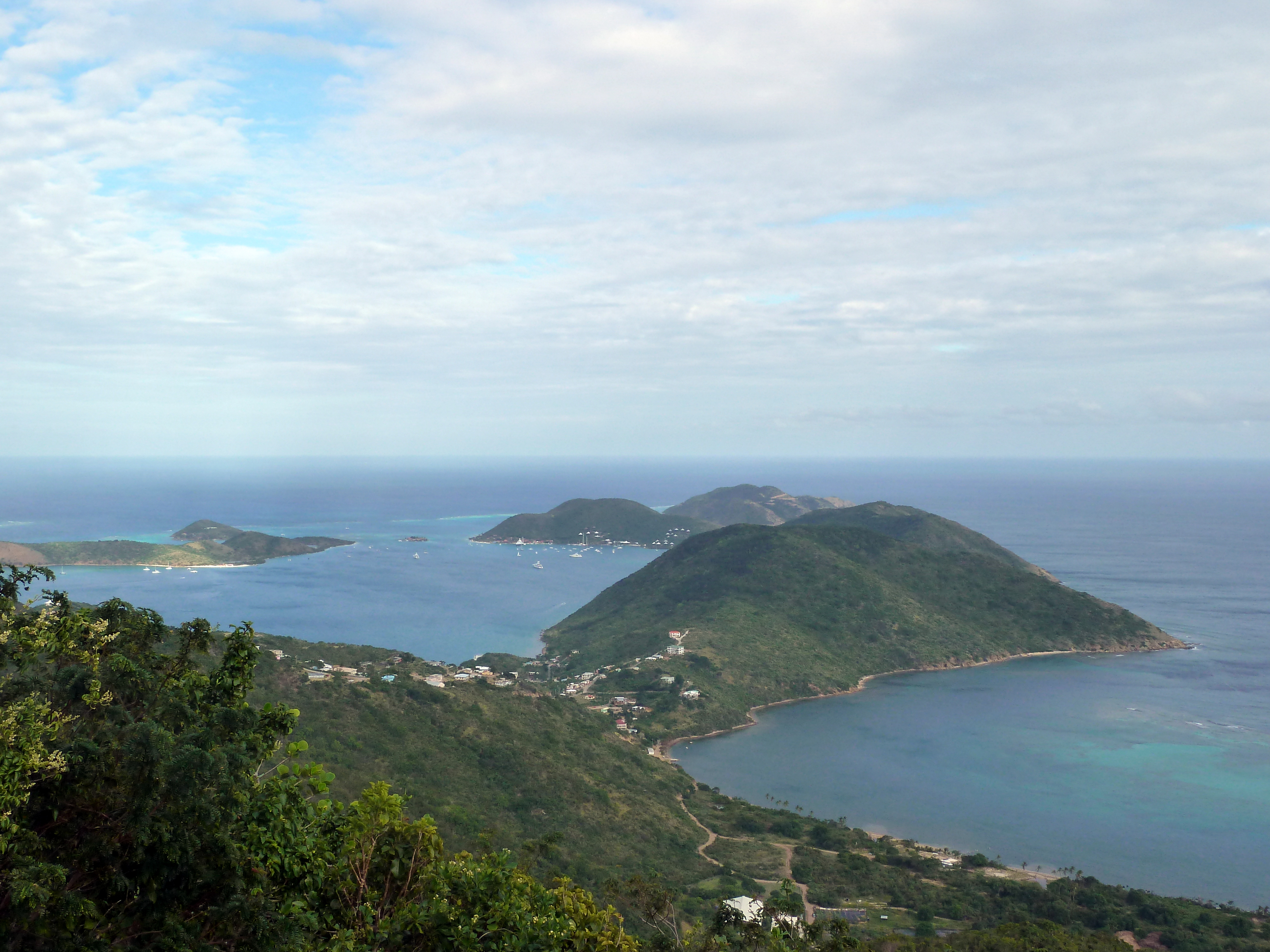 North Sound overlook, Virgin Gorda, BVI, Dec 2010.